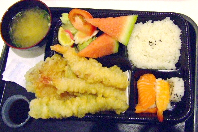 (Market City above Paddy's Market)tempura bento box @ Food Court